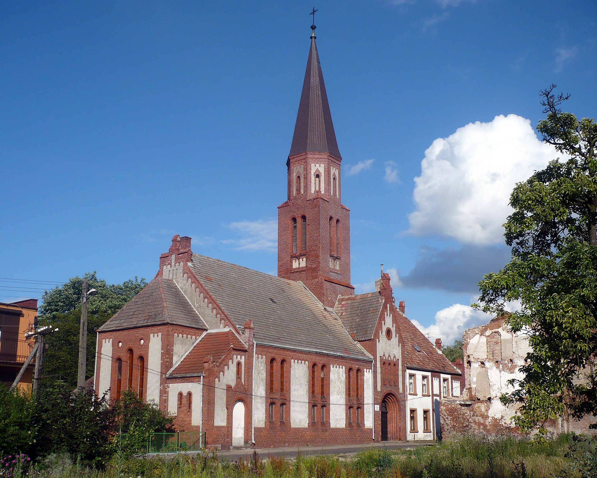 St. John Evangelical Church in Trzebiatów, Poland